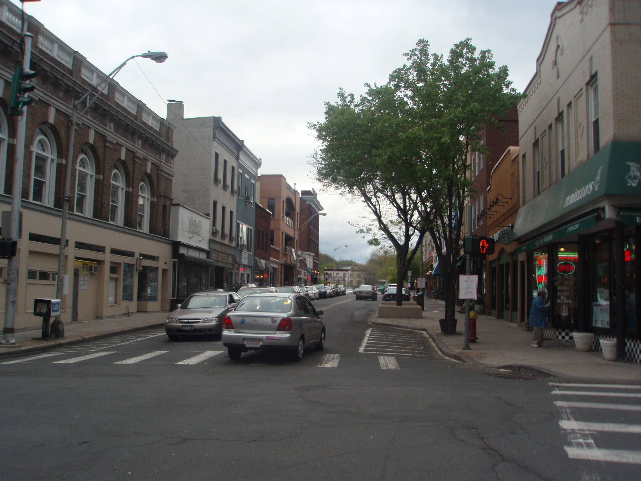 Main Street in Nyack, New York